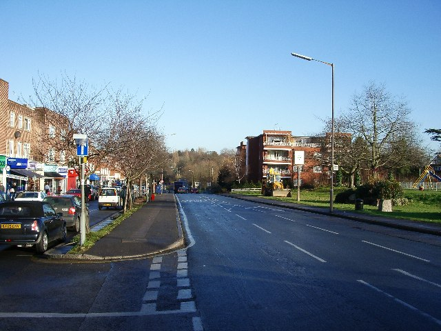 High Road, Chigwell. Looking north from just north of Chigwell station, with the shopping parade on the left and playground on the right.